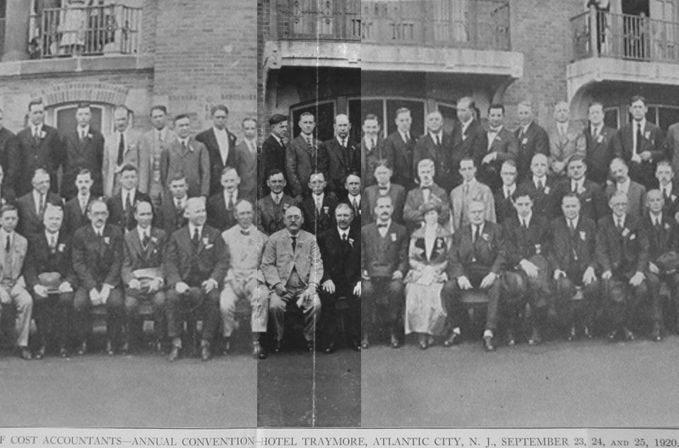 J. Lee Nicholson at International Cost Conference, 1920 (section of whole picture)